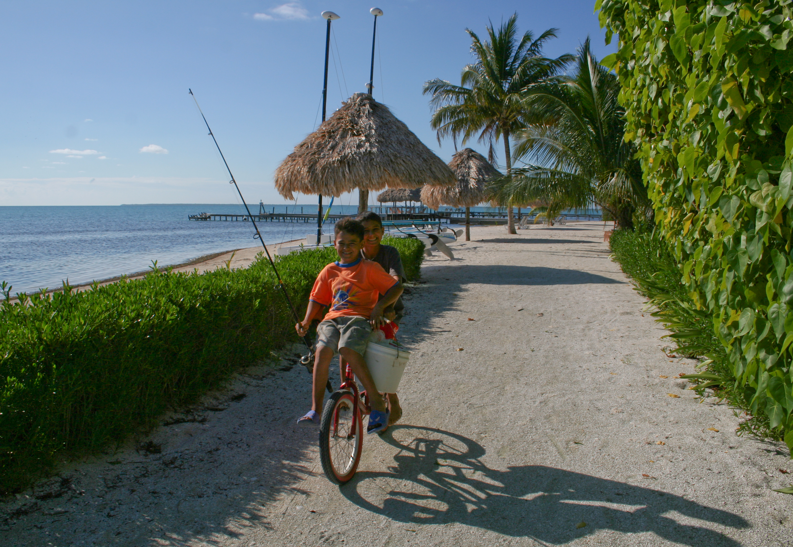 Going fishing